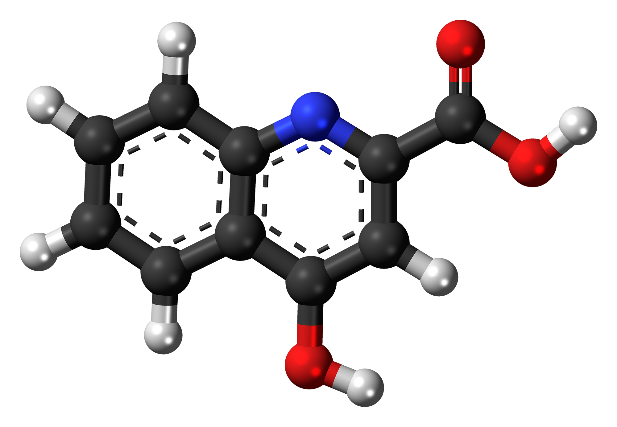 Ball-and-stick model of the kynurenic acid molecule, a common metabolite of tryptophan. Color code: Carbon, C: black Hydrogen, H: white Oxygen, O: red Nitrogen, N: blue